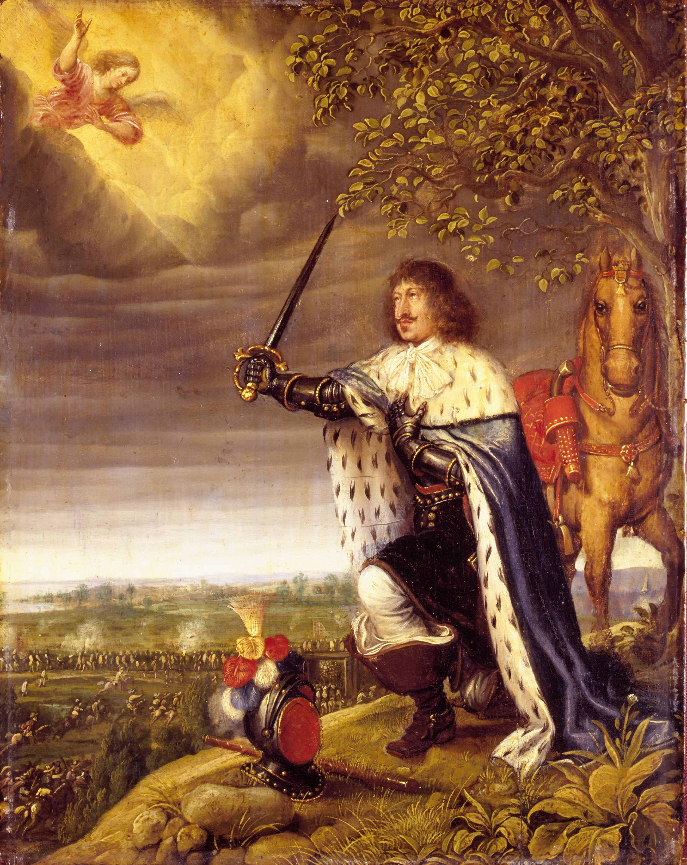 King Frederick III of Denmark painted at the Battle of Nyborg in November 1659 by Wolfgang Heinbach. However, the king was not actually present at the battle.